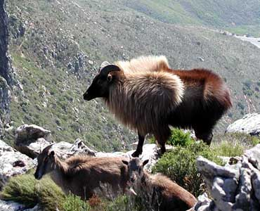 Tahr on Devils Peak, Cape Town, South Africa